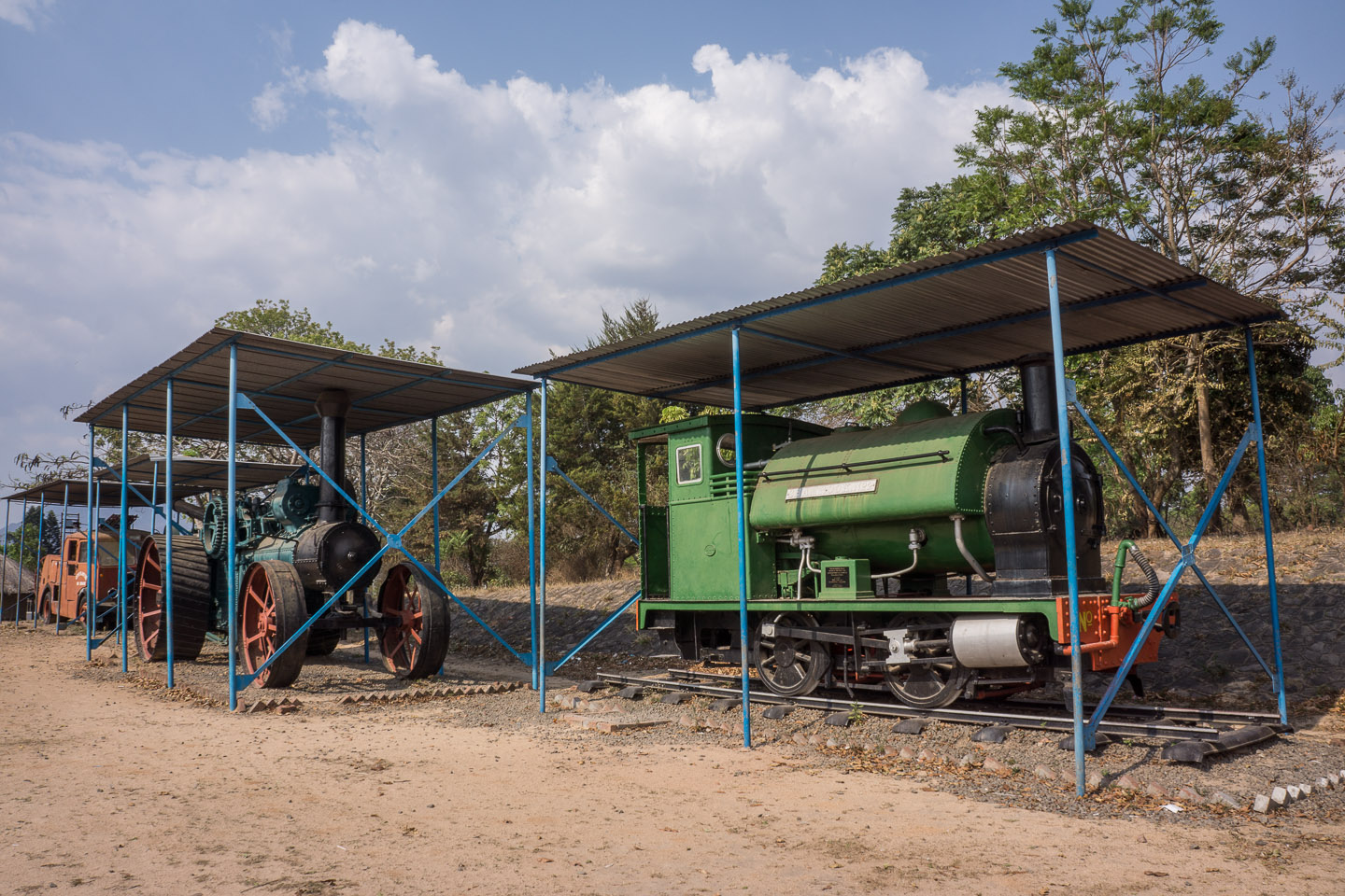 Early trains of Malawi. The Shire Highlands Railway Company acquired in 1904 to work on building the line two 0-4-0 inside cylinder, saddle-tank locomotives from Messrs. W.G. Bagnall Ltd. of Stafford. These were the 'A' Class locomotives, 'Shamrock', No. 2 served on the Shire Highlands and Central Africa railways mainly on shunting and construction work for many years. 'Shamrock' is preserved and exhibited at the Chichiri Museum, Blantyre.